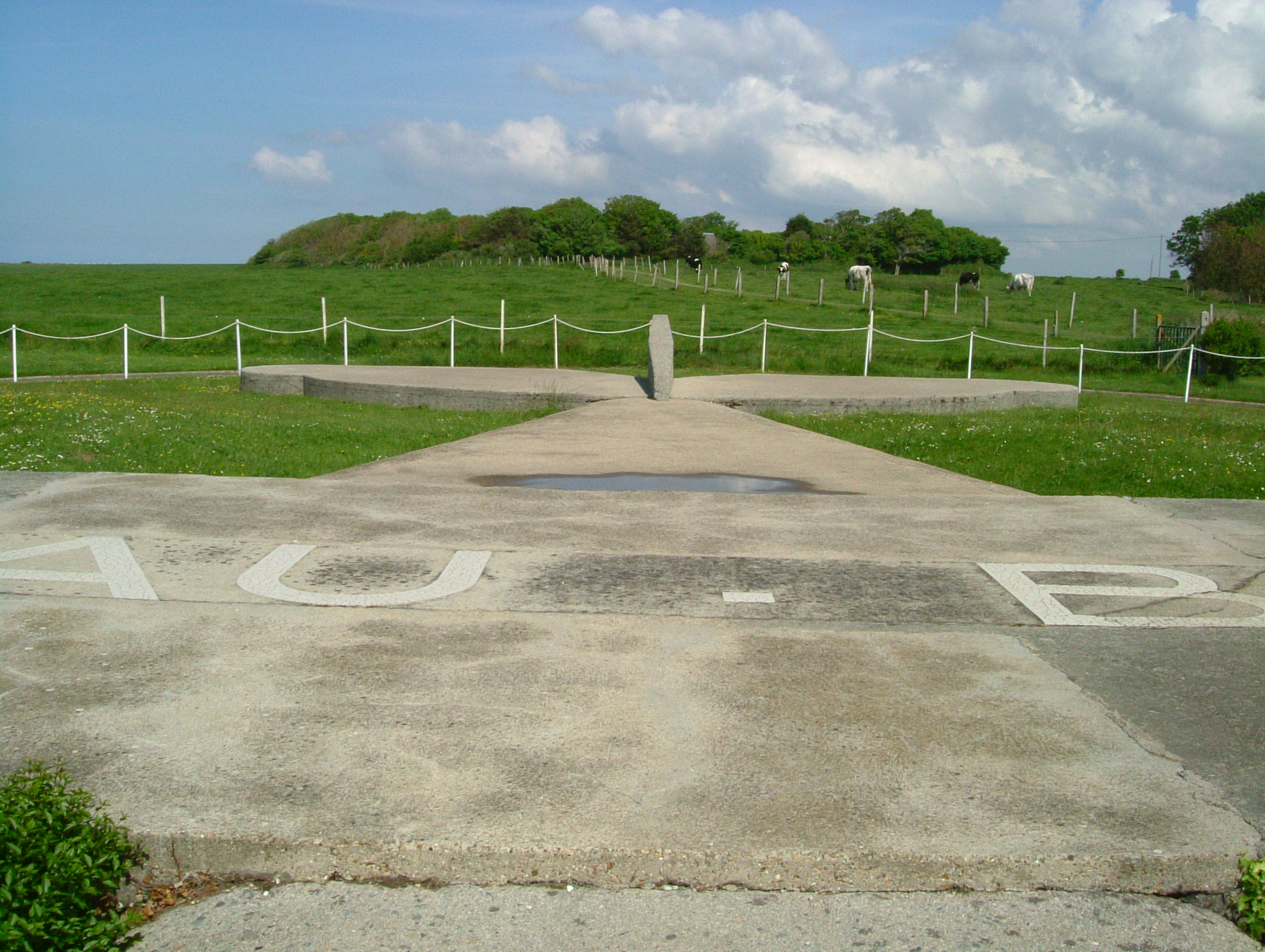 Gaston-Henri Delaune (french, 1917-1967): Monument à la mémoire de Nungesser et Coli (1962/63), Étretat, Seine-Maritime, France.